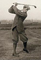 Scottish professional golfer George Duncan, circa 1907.